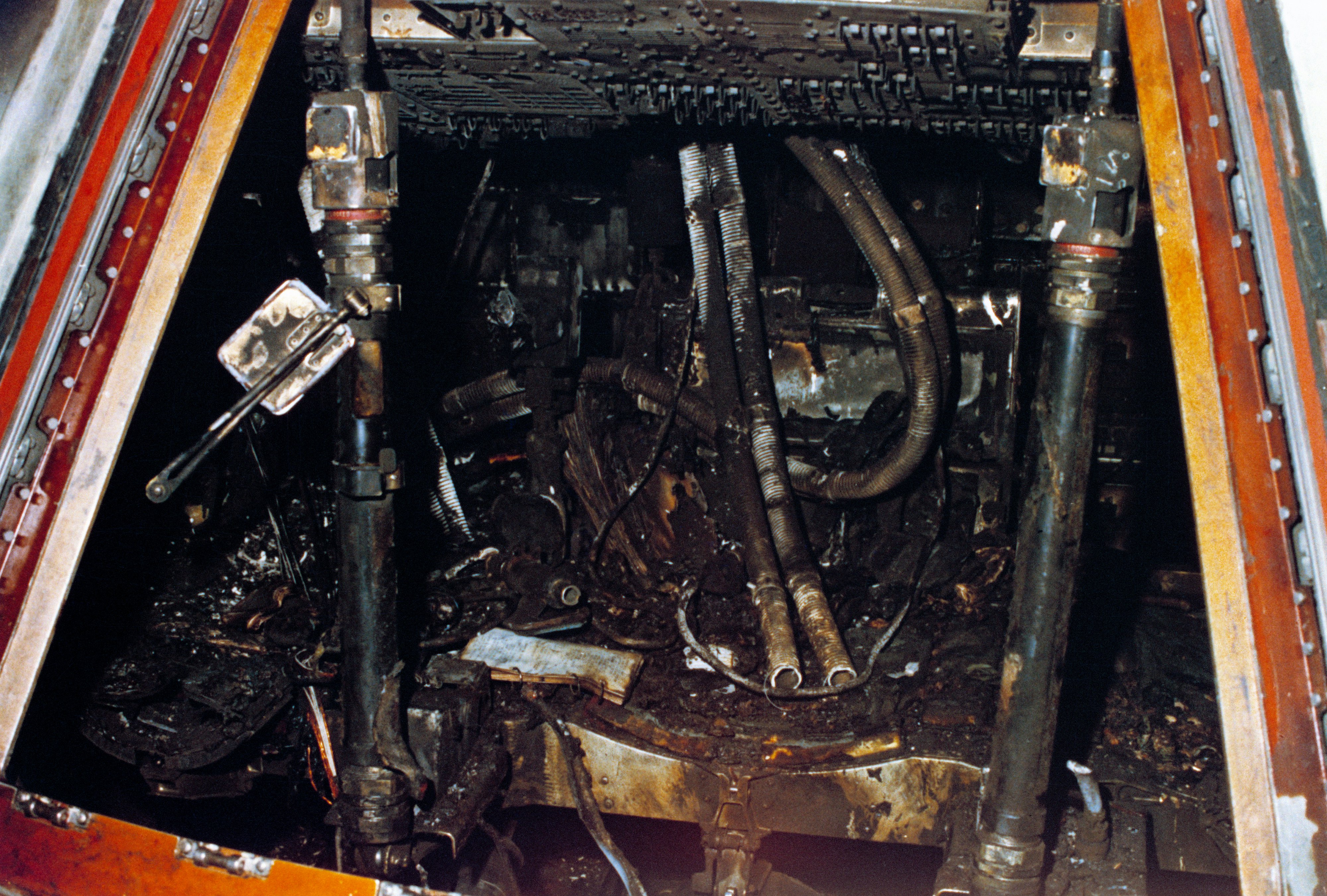 Officially designated Apollo/Saturn 204, but more commonly known as Apollo 1, this close-up view of the interior of the Command Module shows the effects of the intense heat of the flash fire which killed the prime crew during a routine training exercise. While strapped into their seats inside the Command Module atop the giant Saturn rocket, a wire bundle that was worn due to misplacement and a sharp-edged access door, sparked and ignited flammable material. This quickly grew into a large fire in the pure oxygen environment. The speed and intensity of the fire quickly exhausted the oxygen supply inside the crew cabin. Unable to deploy the hatch due to its cumbersome design and lack of breathable oxygen, the crew lost consciousness and perished. They were: astronauts Virgil I. "Gus" Grissom, (the second American to fly into space) Edward H. White II, (the first American to "walk" in space) and Roger B. Chaffee, (a "rookie" on his first space mission).